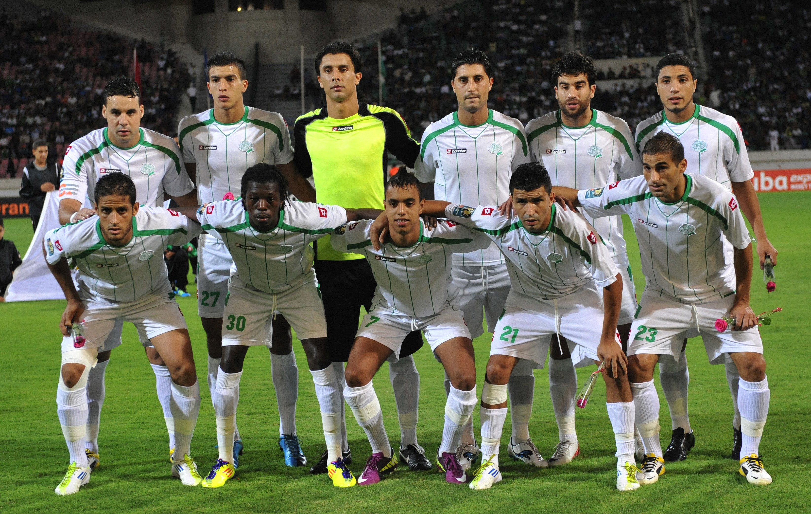 Raja Casablanca, August 2011